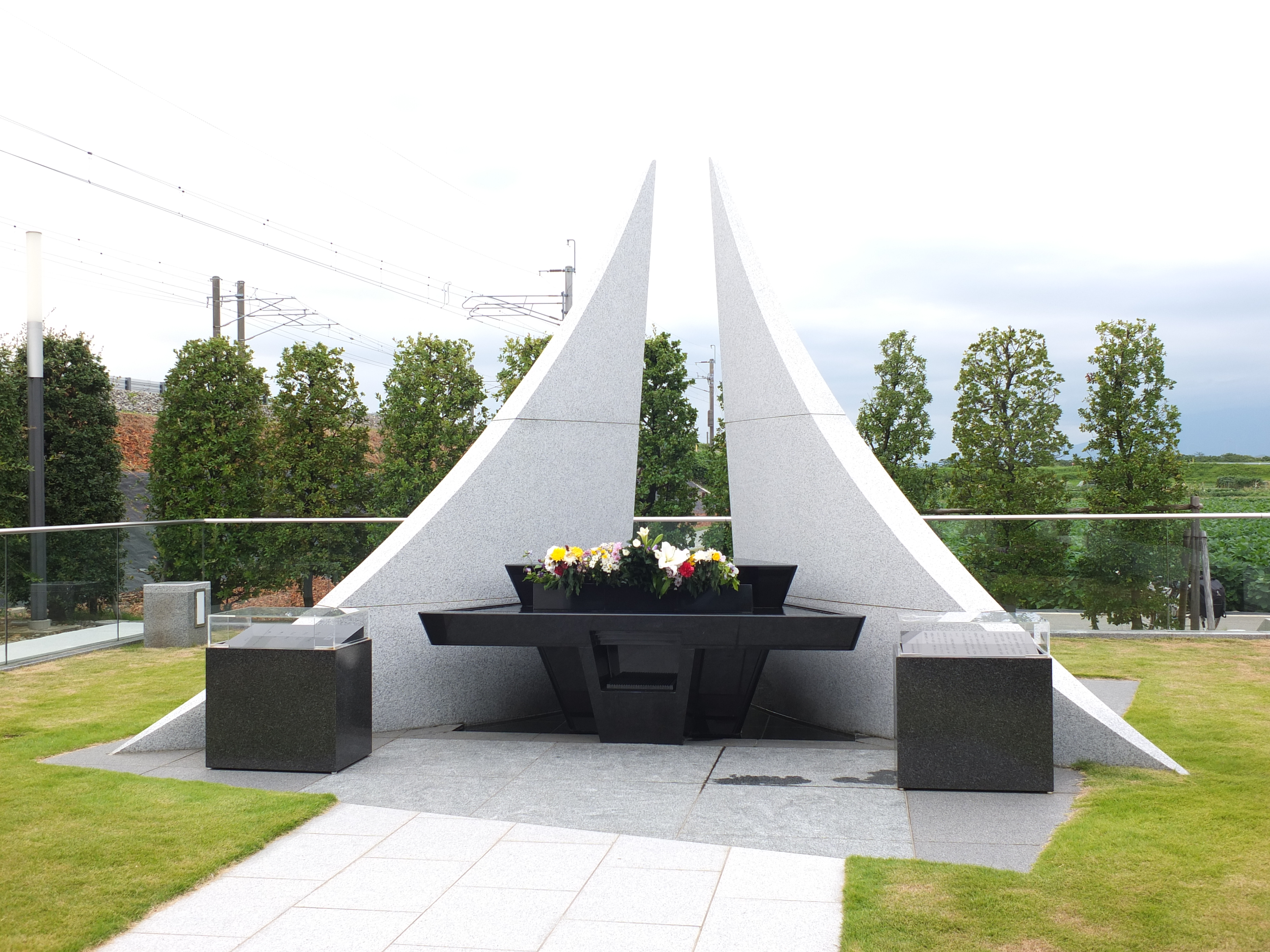 Memorial tower of JR Uetu main line derailment, at Syounai-town, Higasi-Tagawa district, Yamagata prefecture, Japan.